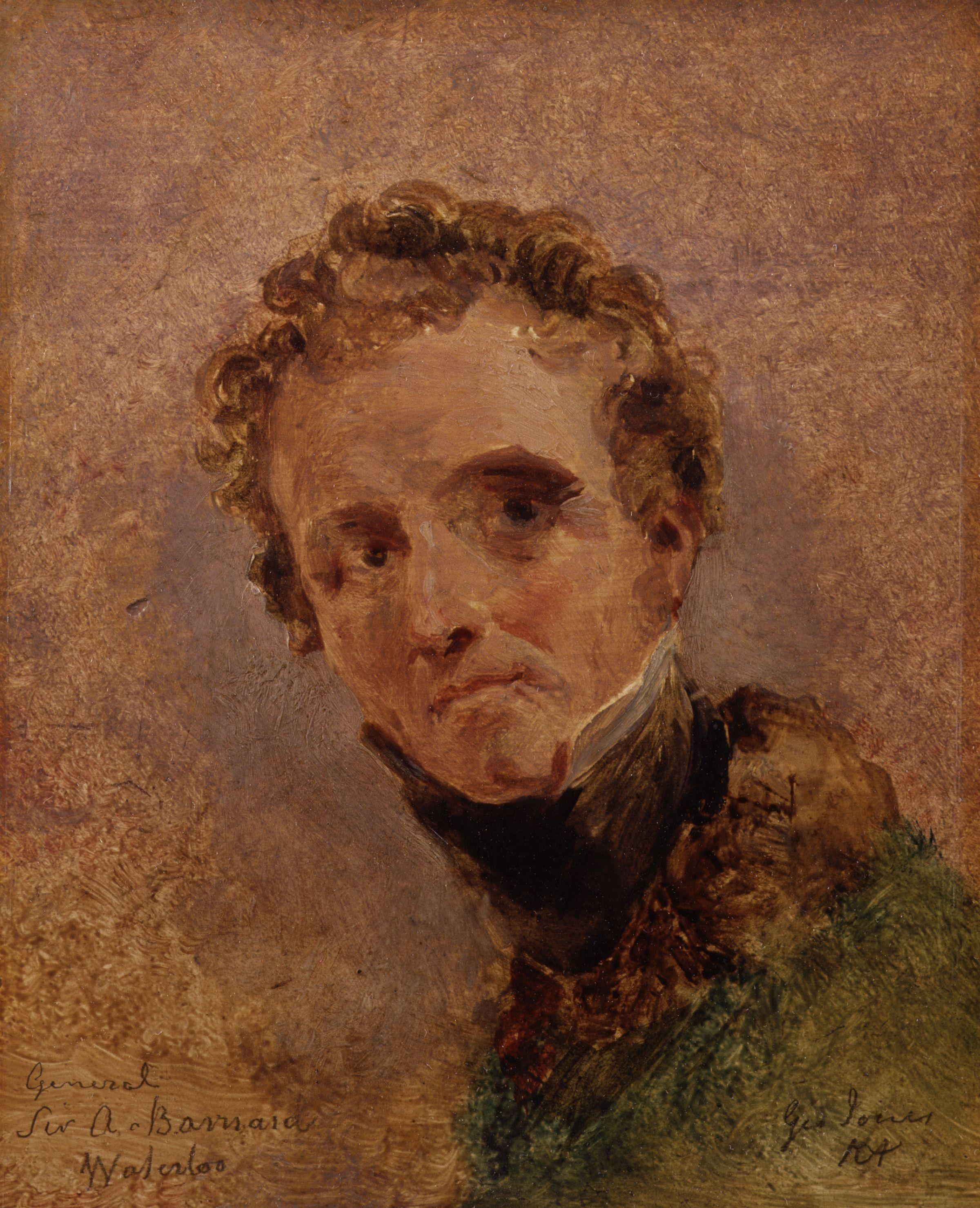 Sir Andrew Francis Barnard, by George Jones (died 1869), given to the National Portrait Gallery, London in 1871. All images in this batch have been confirmed as author died before 1939 according to the official death date listed by the NPG.